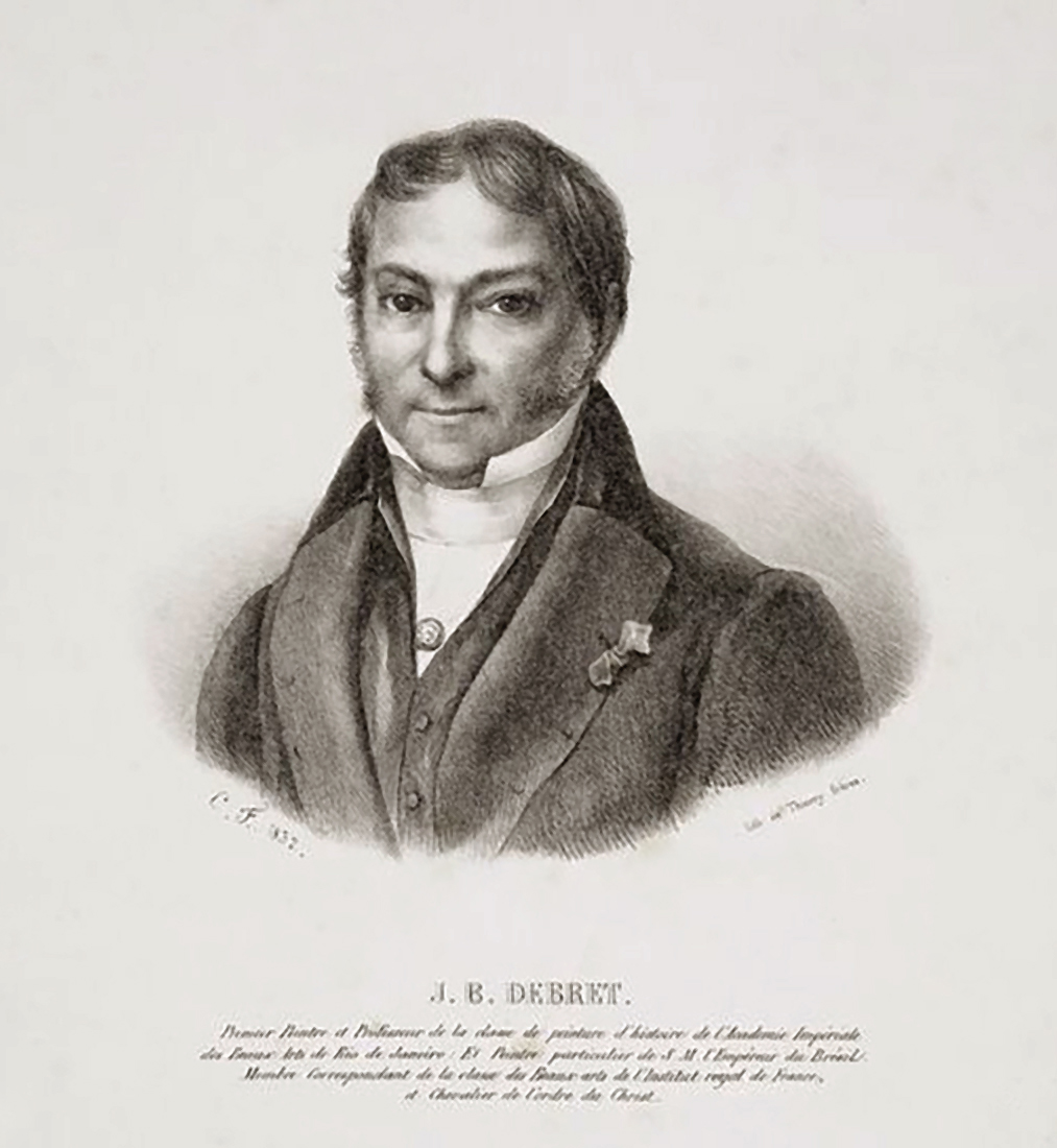 Auto-retract of Jean Baptiste Debret